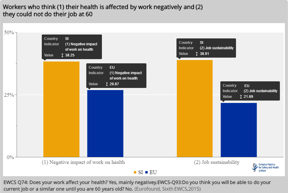 (1) their health is affected by work negatively and (2) they could not do their job at 60